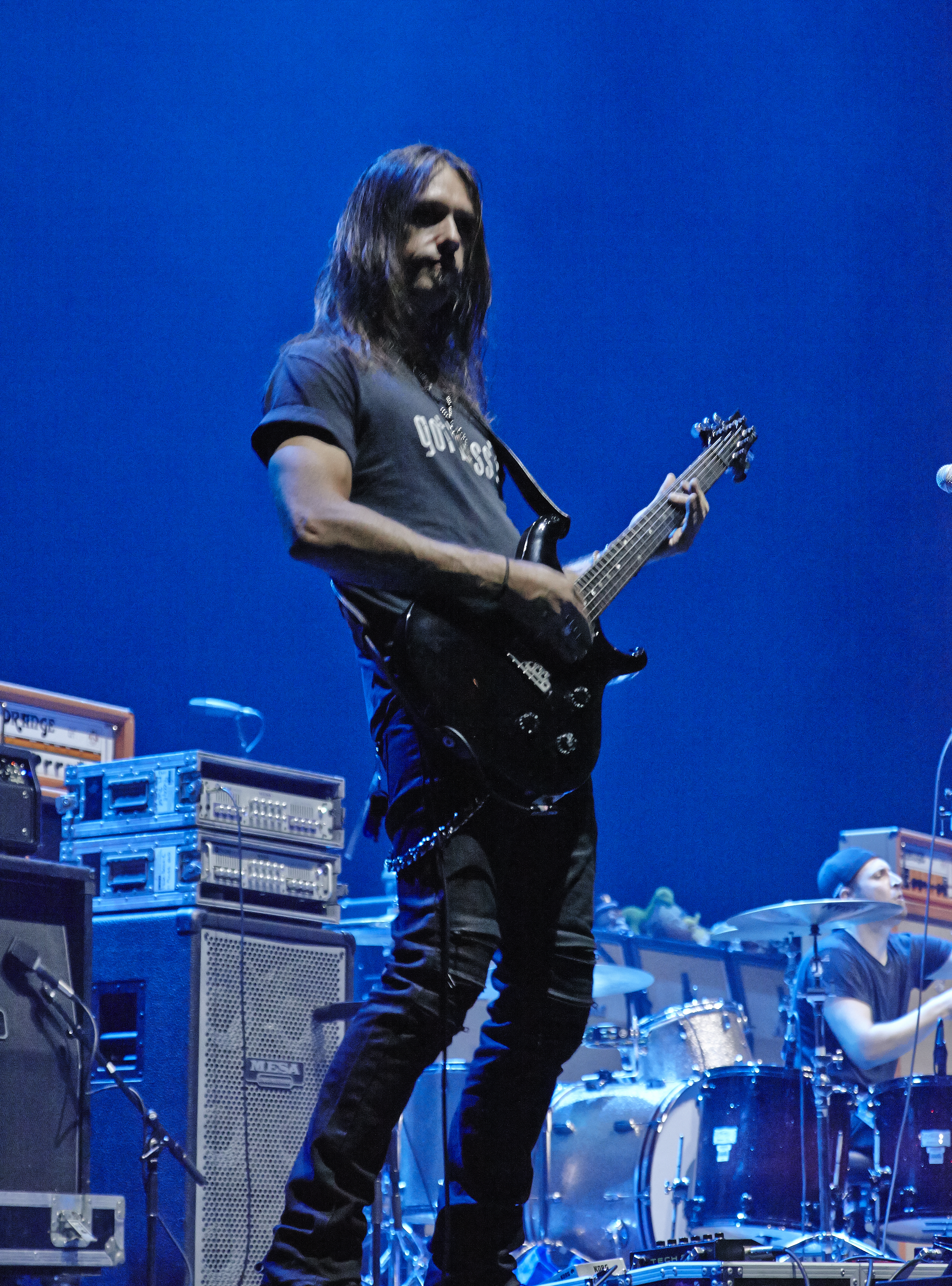 Mark Wells Glasgow Arena Twenty Two Hundred markwells #Markwellsguitar